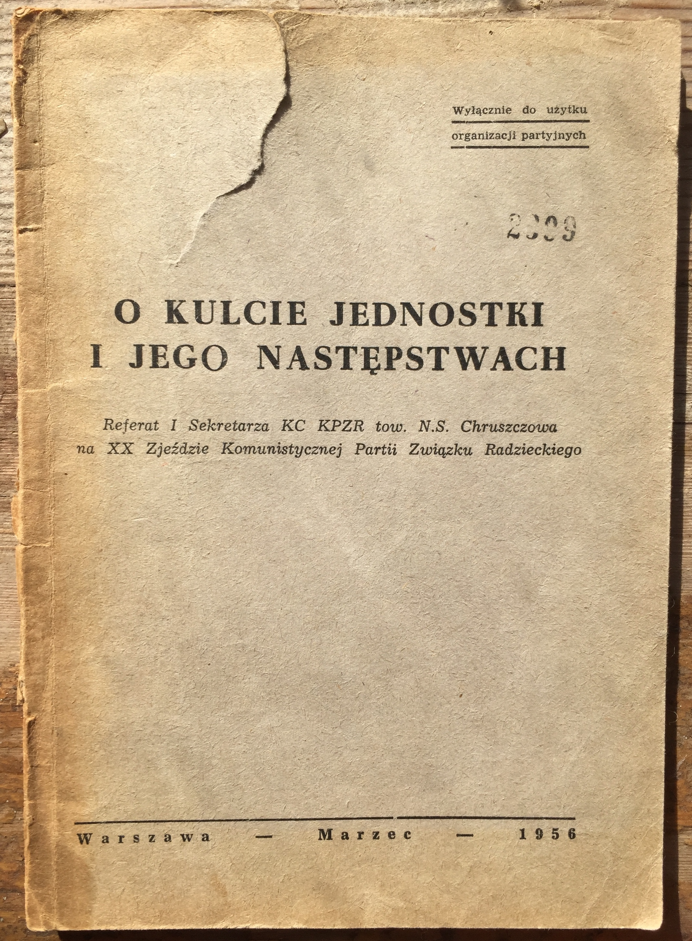 "O kulcie jednostki i jego konsekwencjach", Warsaw, March 1956, first edition of the "Secret Speech" (in Polish).